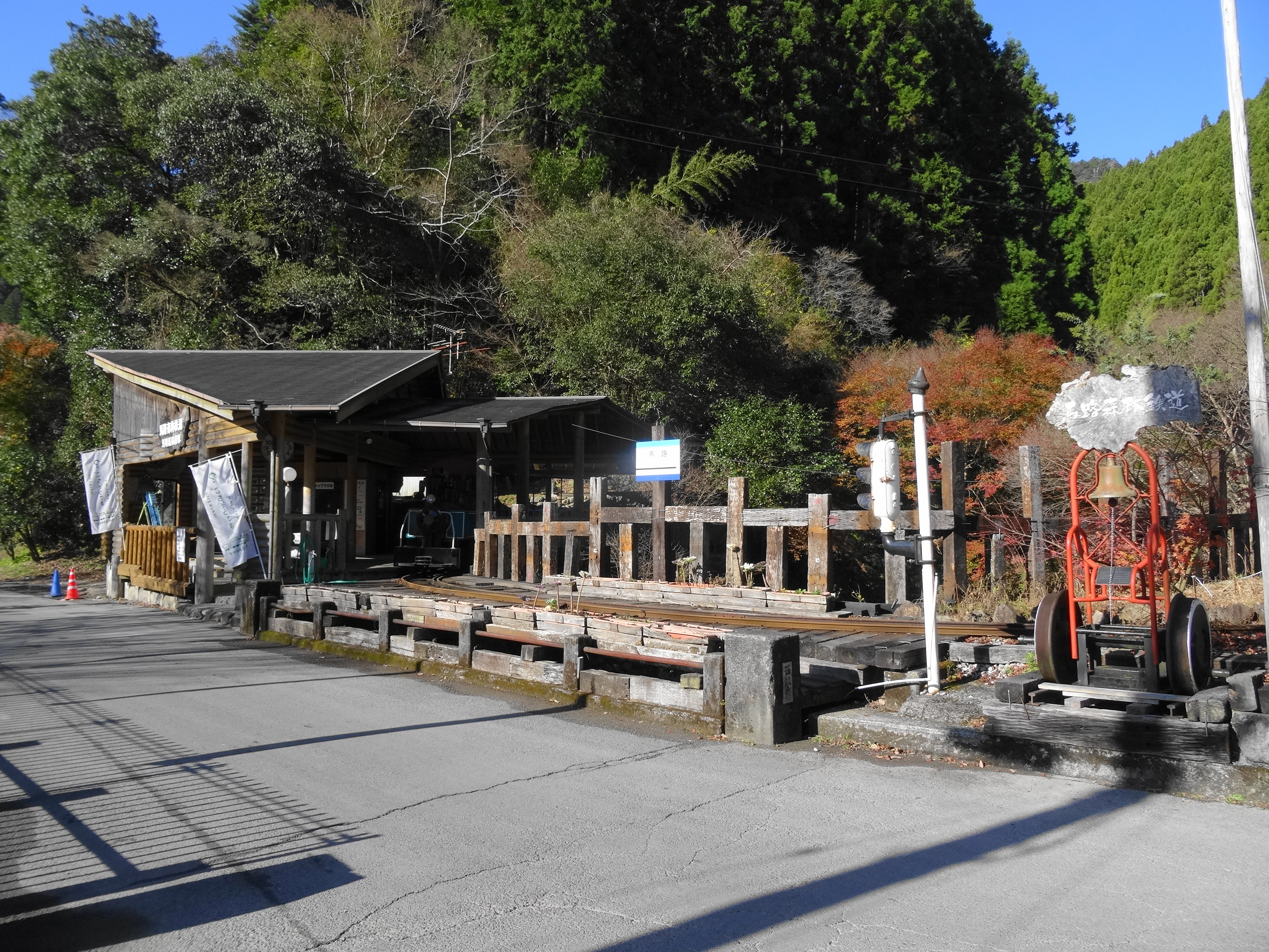 Umaji forest railway park in Umaji, Kochi, Japan